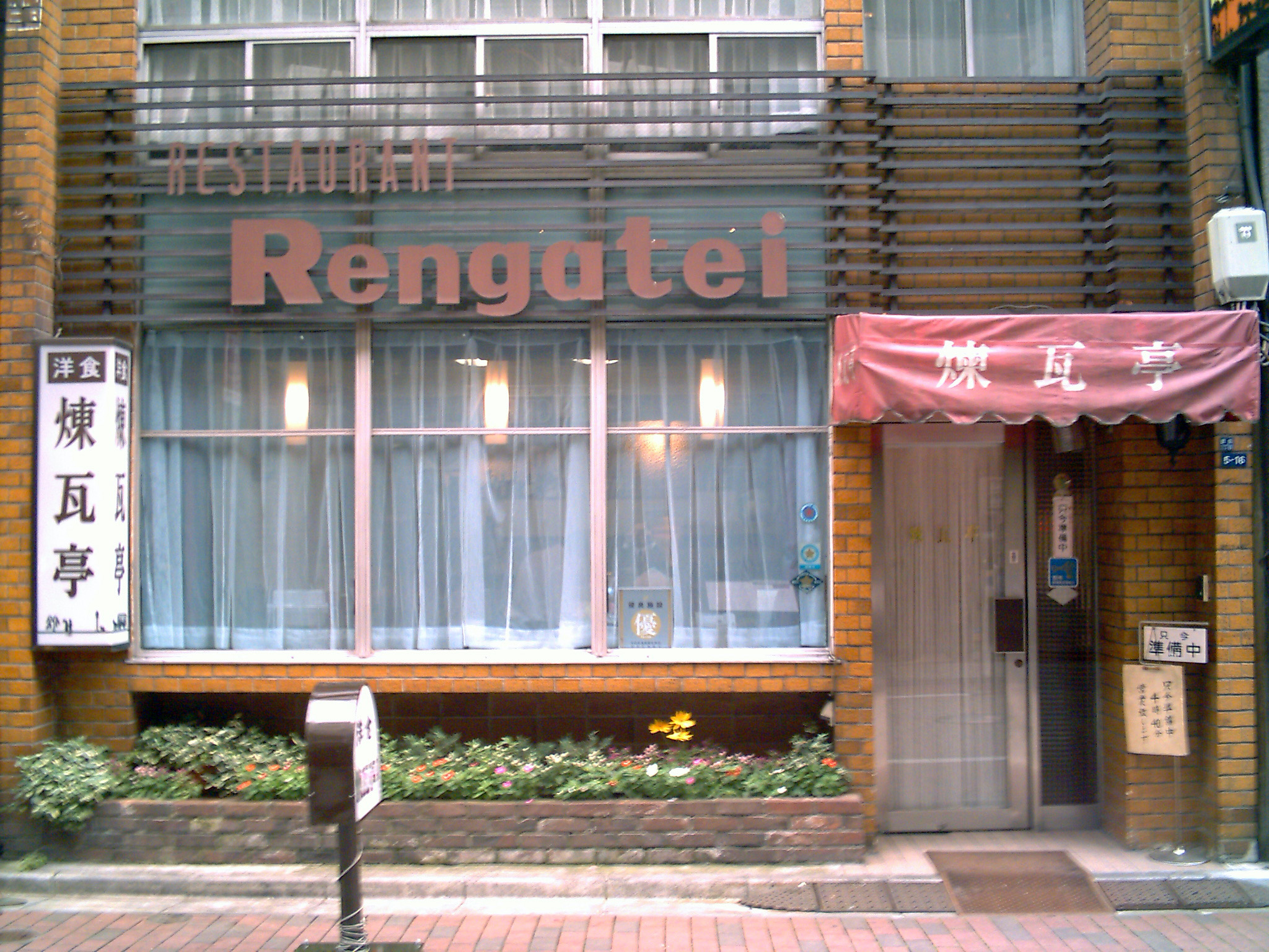 Ginza_Restaurant__Renga_tei_japan photography day, 2006.9.16. photography person kici